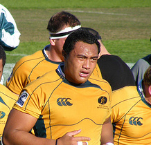 Cropped image of Hugh McMeniman, Digby Ioane, Sekope Kepu and blowing his nose is Brett Sheehan.